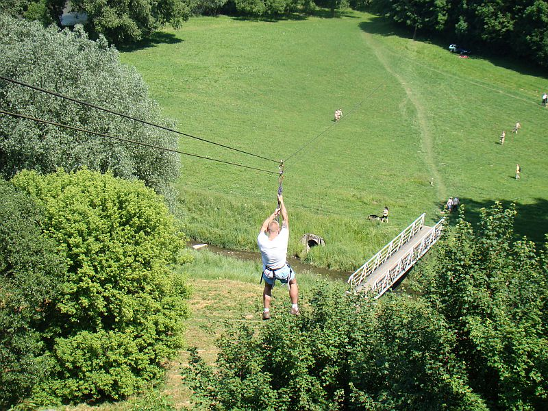 Tyrolean downhill in Sanok